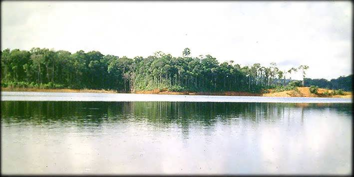 View of shoreline of of EDF's reservoir dam (Barrage EDF de Petit-Saut, (French Guiana) in December 1995 when the water had not yet reached its maximum level. A portion of the banks collapsed while the level rose.